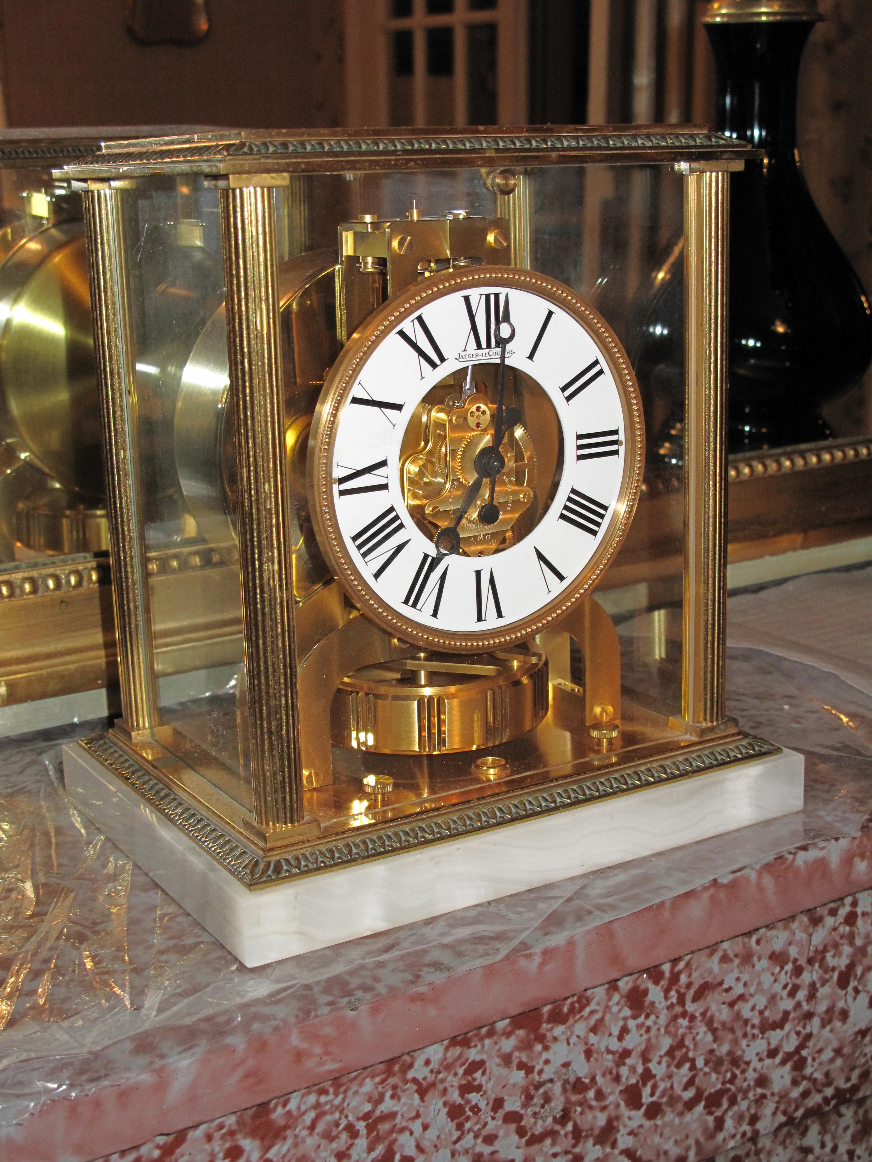 Desk clock Atmos